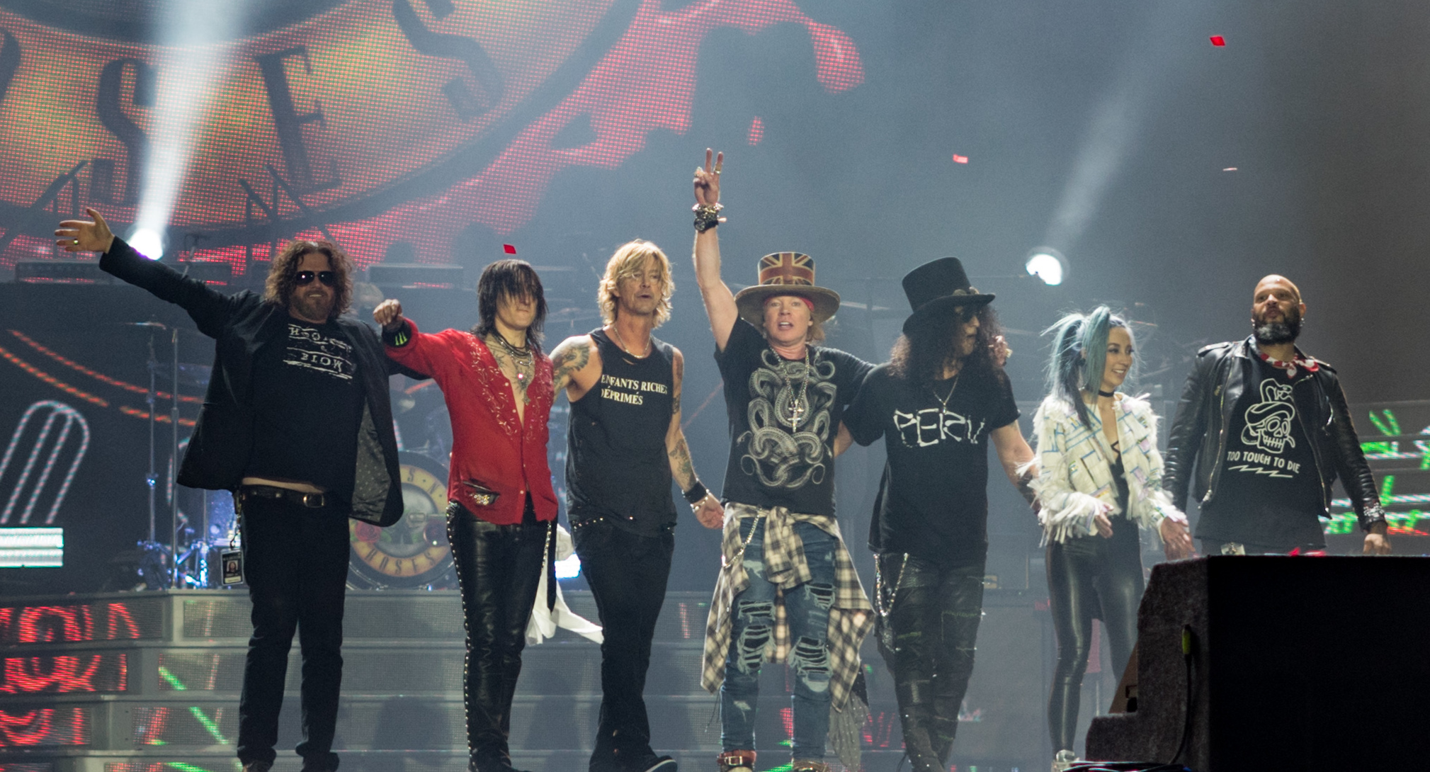 Guns N' Roses - London Stadium - Friday 16th June 2017